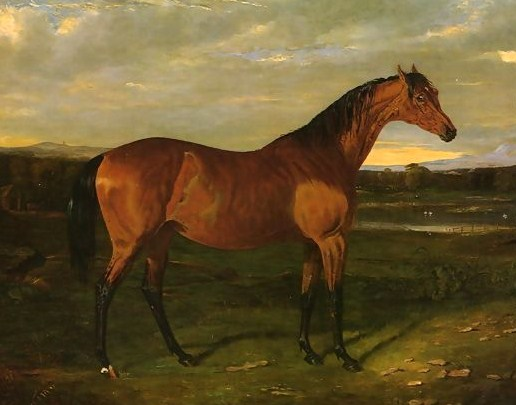 Painting of the British racehorse Manuella, by John Frederick Herring, Sr. (1795–1865). Artist dead for 147 years.